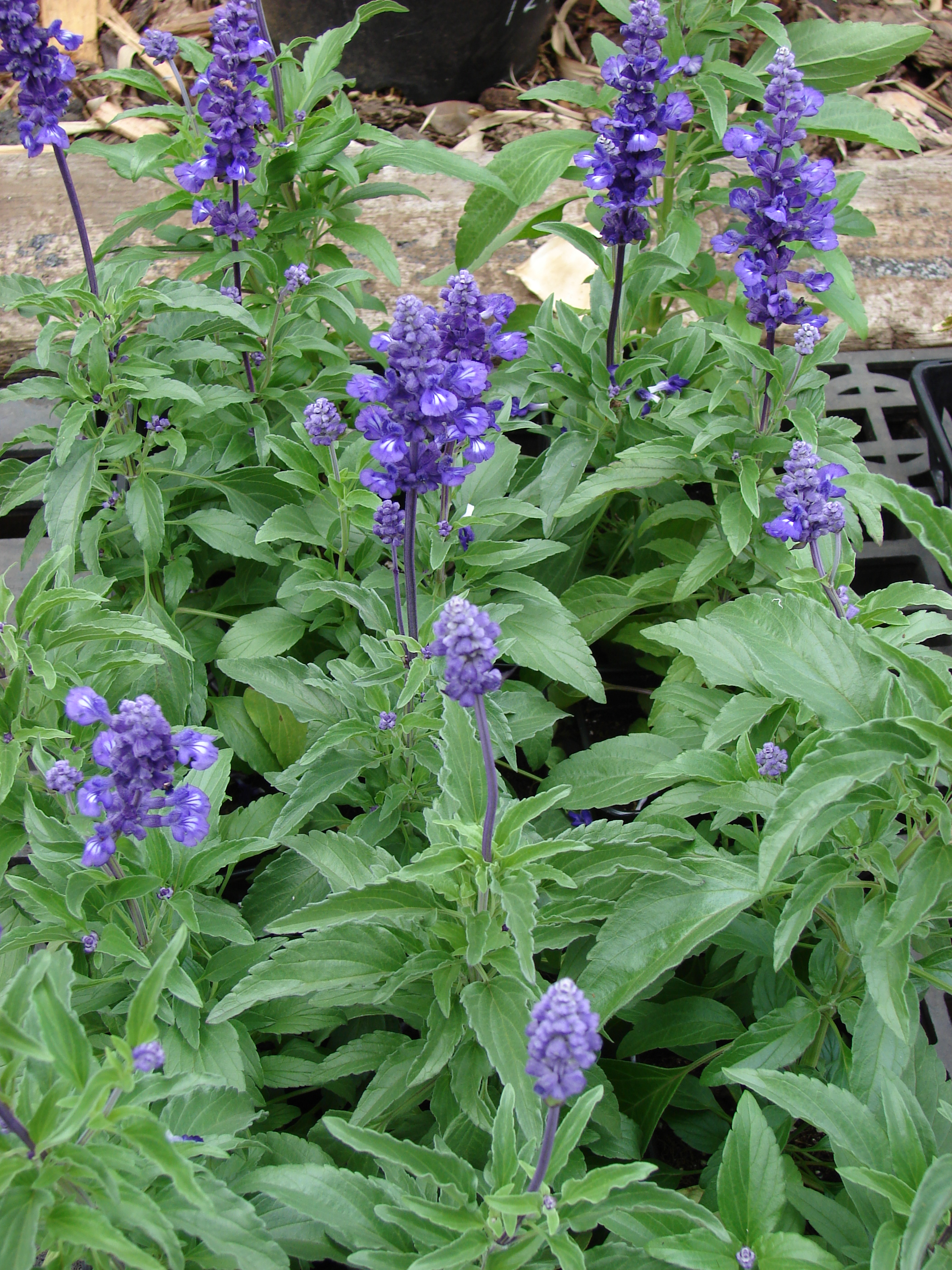 Salvia farinacea (flowering habit). Location: Maui, Kula Ace Hardware and Nursery